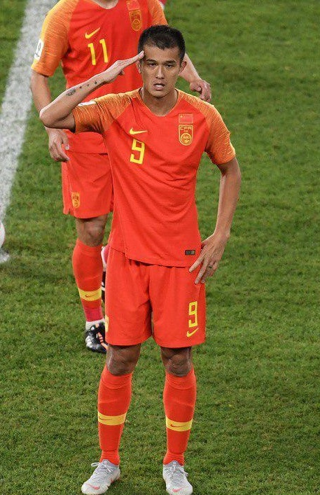 Xiao Zhi